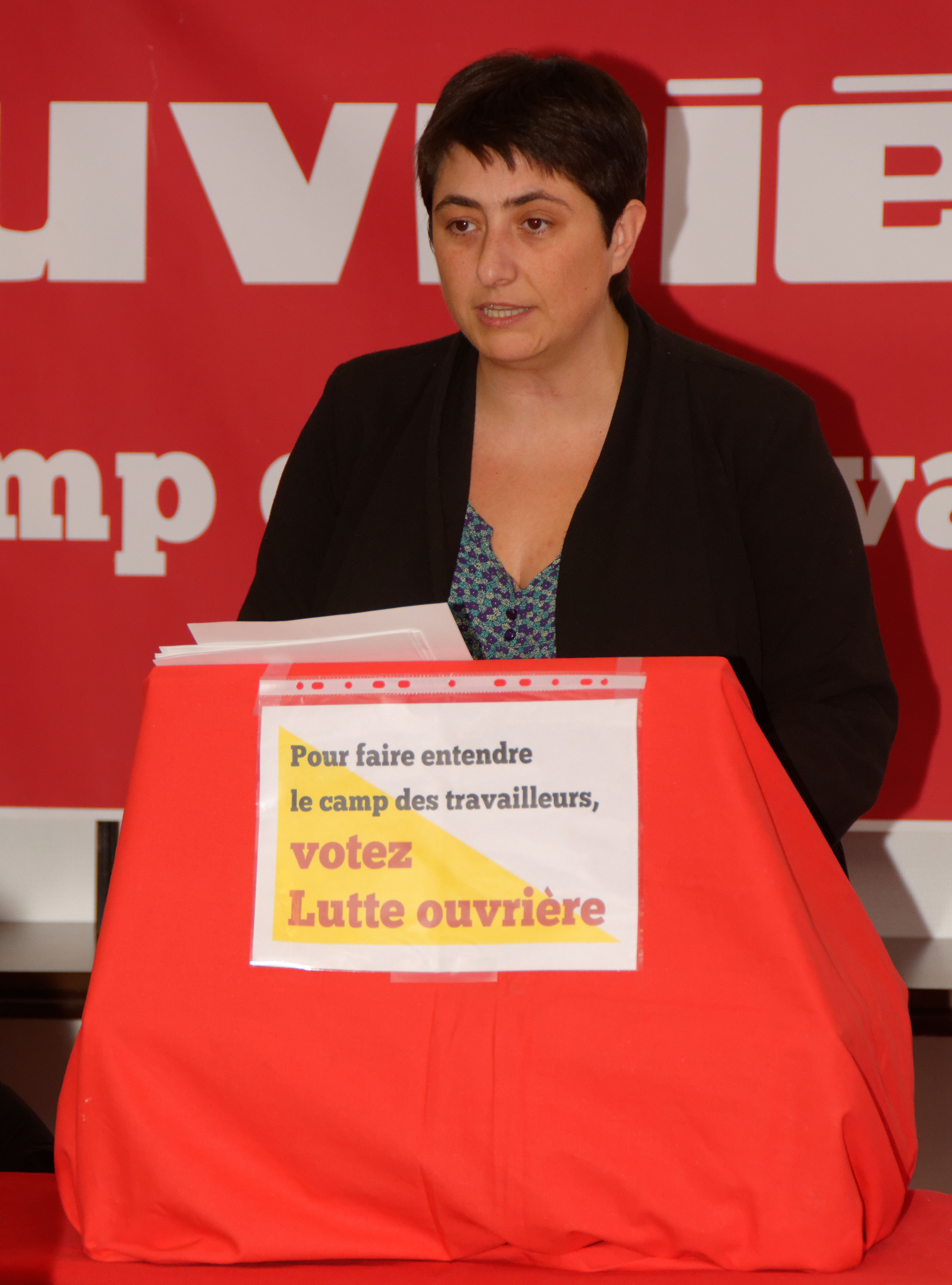 Personality rights warningAlthough this work is freely licensed or in the public domain, the person(s) shown may have rights that legally restrict certain re-uses unless those depicted consent to such uses. In these cases, a model release or other evidence of consent could protect you from infringement claims.